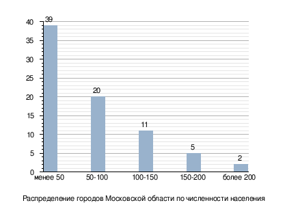 City of Moscow region in terms of population